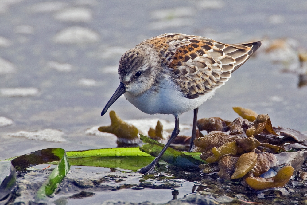 Western Sandpiper, Cattle Point, Uplands, Near Victoria, British Columbia